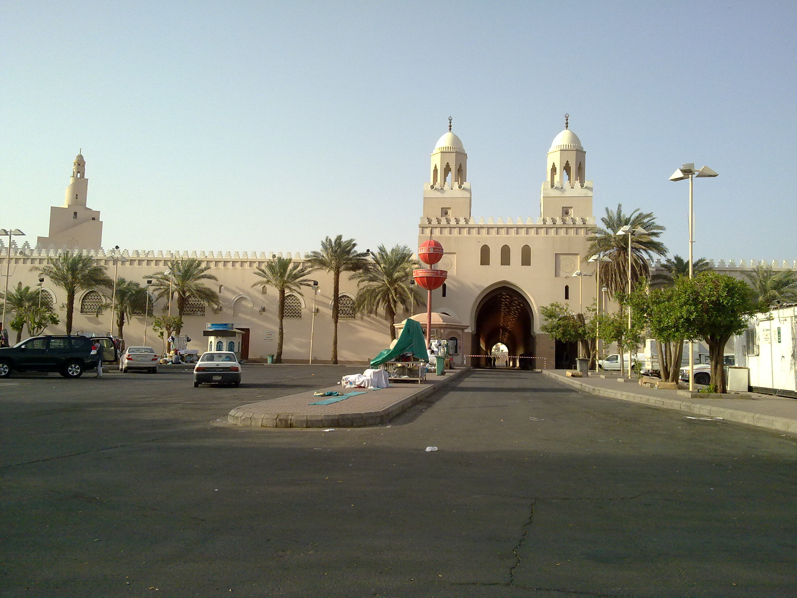 Miqat for the people of Medina, named Abyar 'Ali or Dhu 'l-Hulayfa